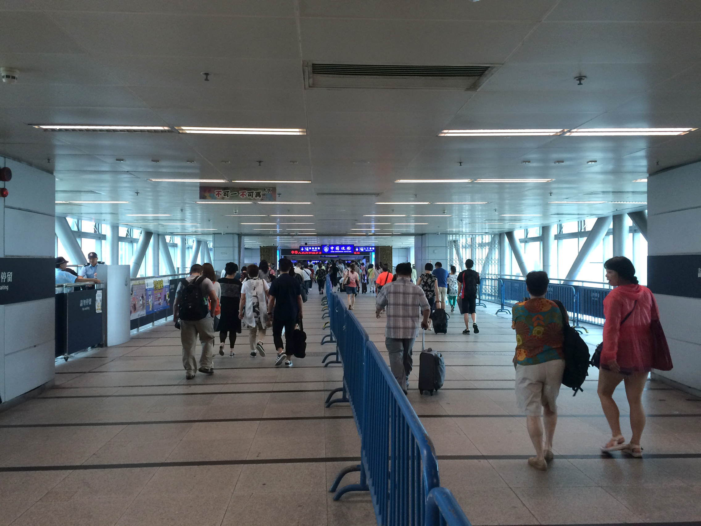 Lo Wu Bridge to ShenZhen